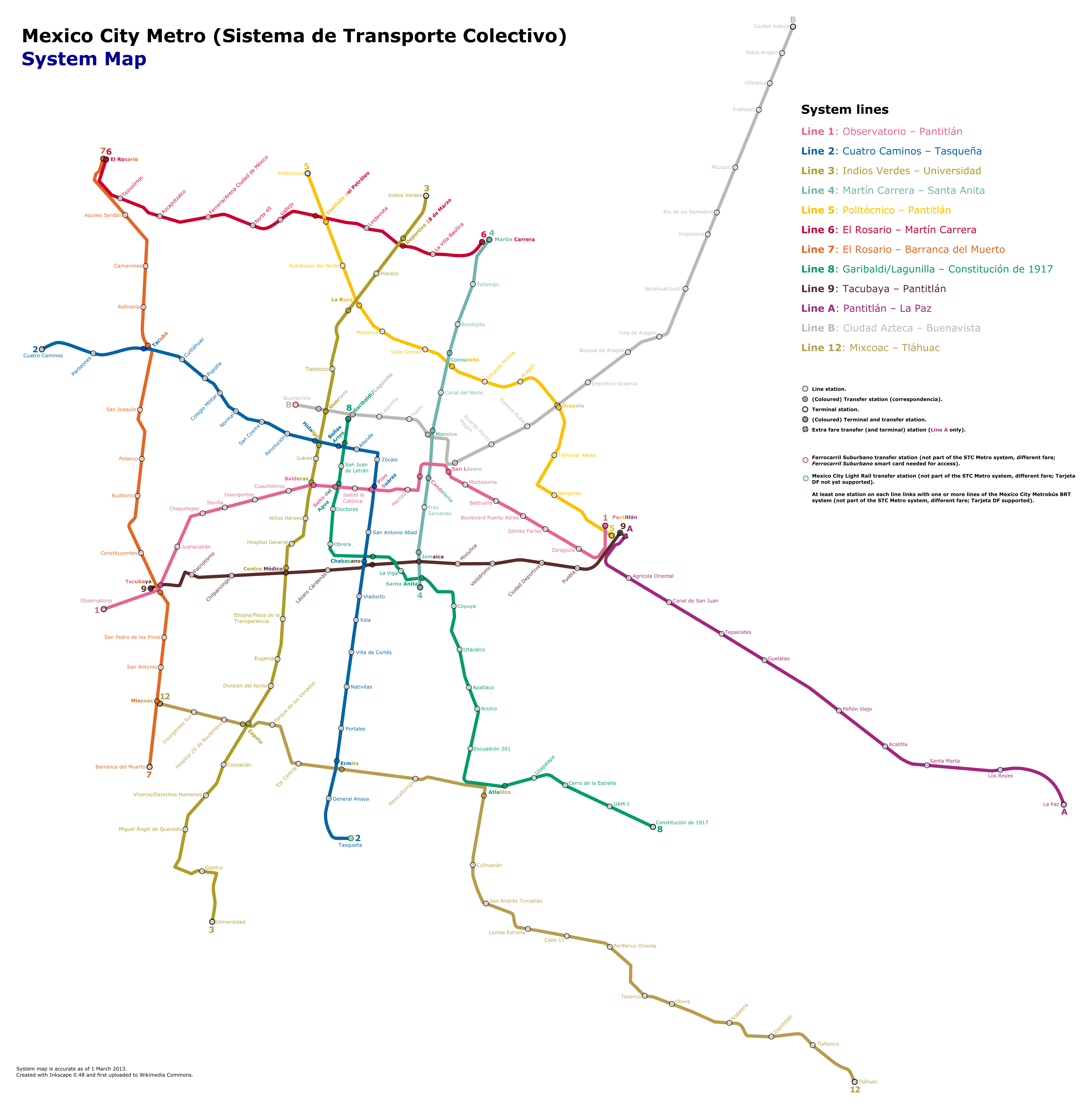 Mexico City Metro (Sistema de Transporte Colectivo) System Map. Based on actual system routes according to STC. Locations are accurate. All twelve lines of the system have been included, and station names are accurate as of 1 March 2013. English captions version. Station names and any logos are property of Sistema de Transporte Colectivo. No copyright infringement intended.